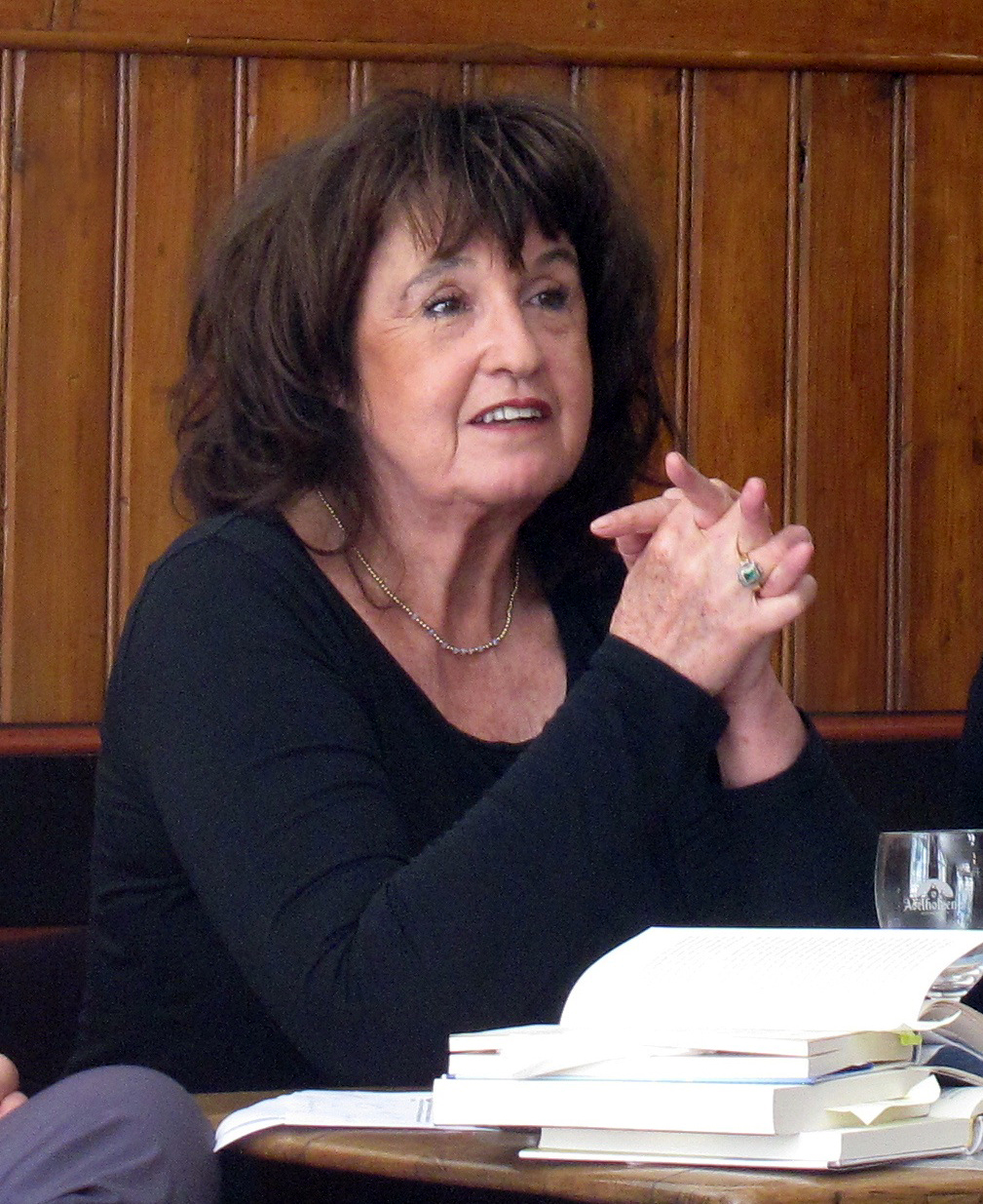 Keto von Waberer bei der Lesung der Münchner BücherFrauen am 16. September 2012.